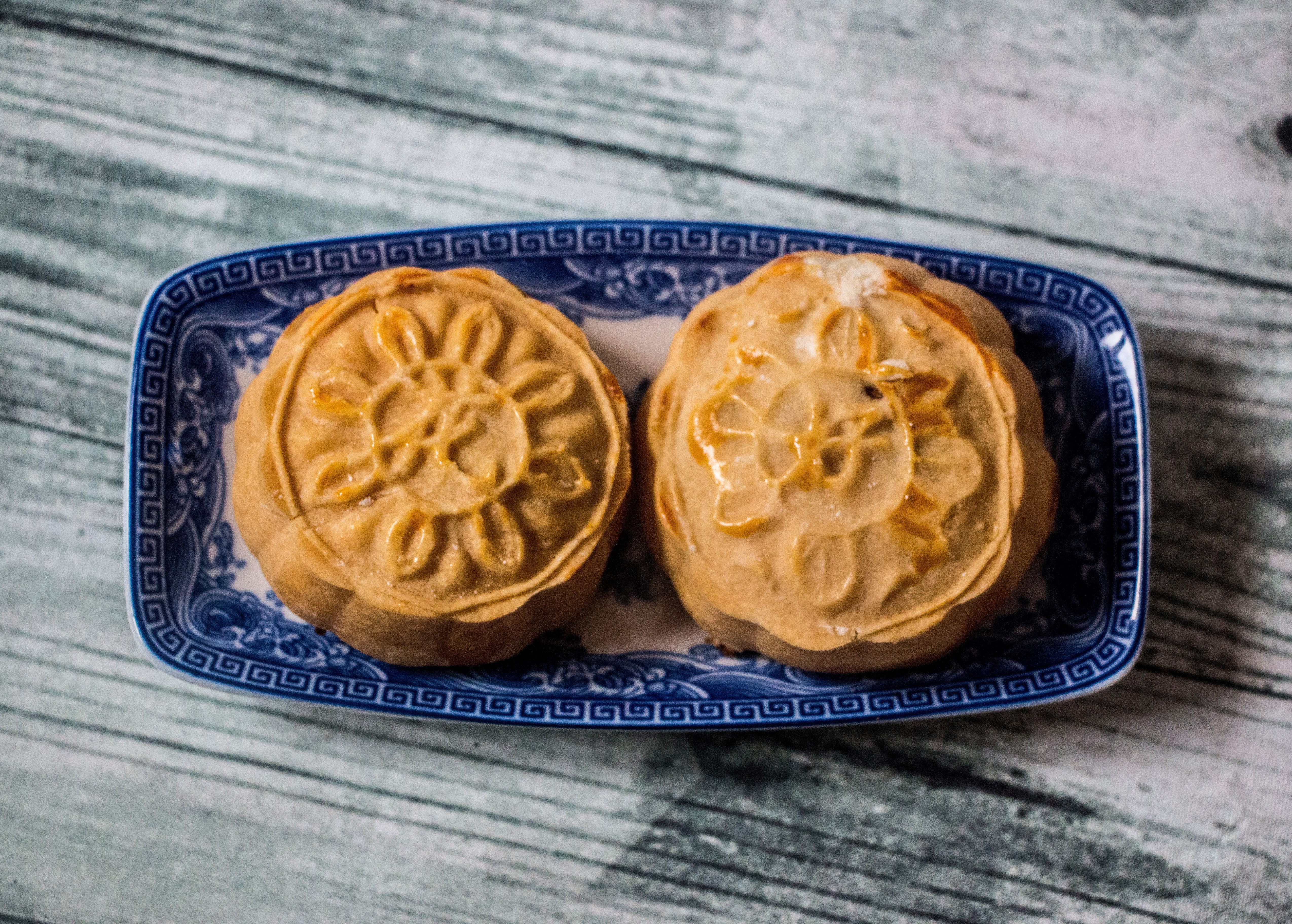 Chinese moon cakes for the Mid-Autumn festival